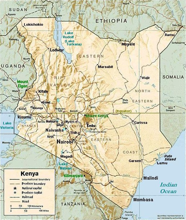 Kenya relief map with town names for Nairobi, Mombasa, Naivasha, Nakuru, Nyeri, Gilgil, Kisumu, Kakamega, Eldoret, Embu, etc.